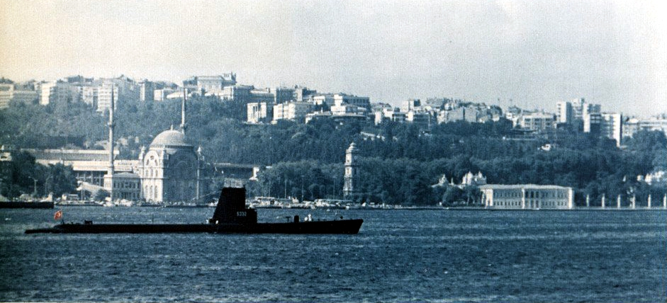 The Turkish submarine TCG Sakarya (S-332) off Istanbul, Turkey, in 1973. Sakarya was commissioned in the U.S. Navy as USS Boarfish (SS-327) from 1944 to 1948. She served in the Turkish Navy from 1948 to 1974.